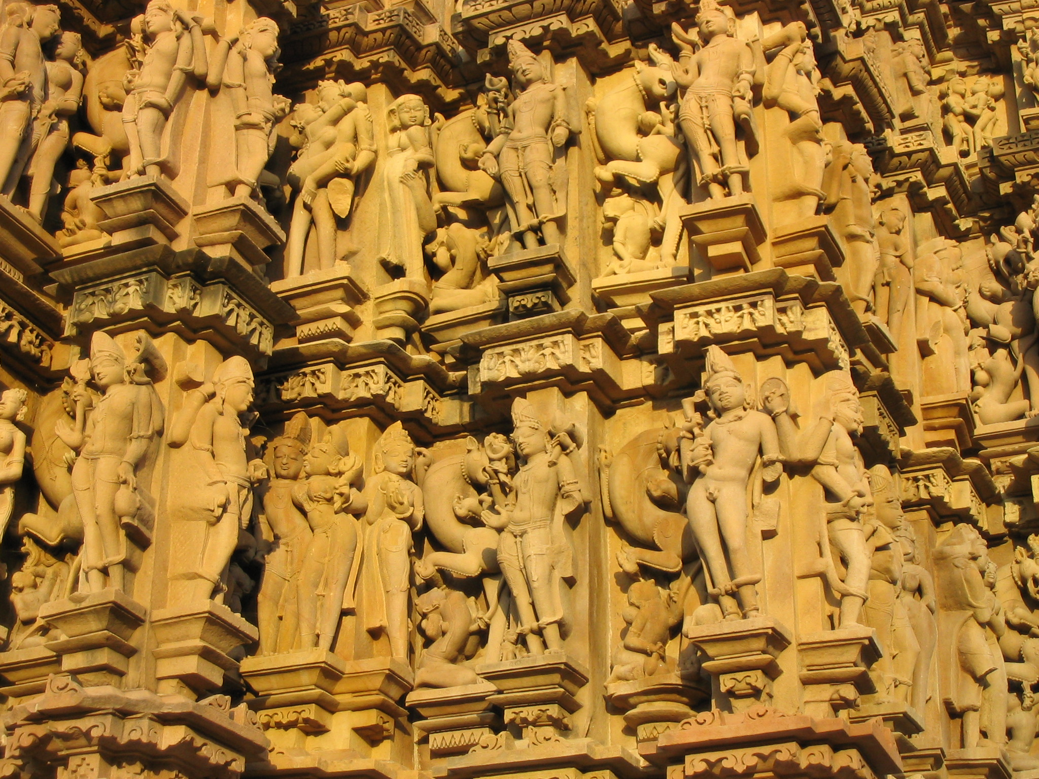 Khajuraho, Jagdambi Temple, India (Madhya Pradesh)